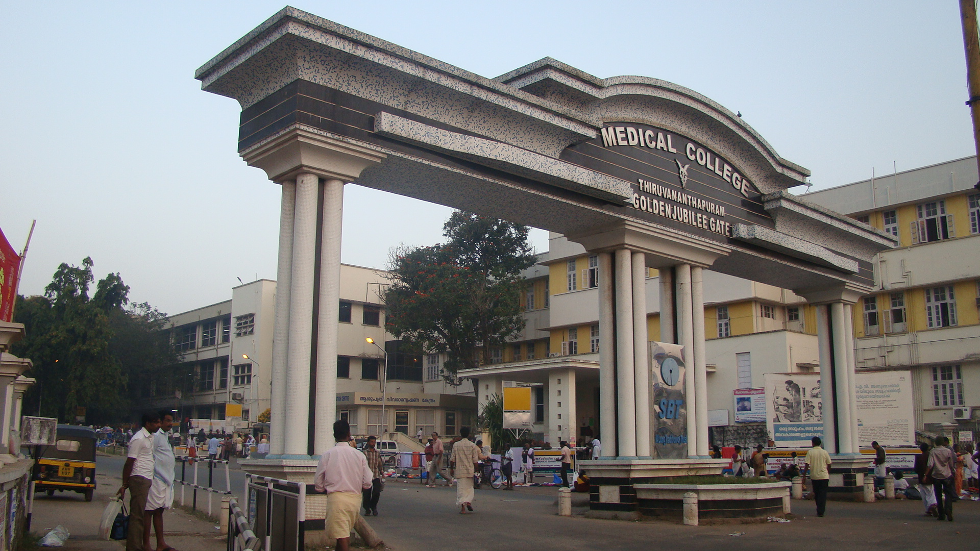 Golden Jubilee Gate of Medical college hospital complex in Thiruvananthapuram.